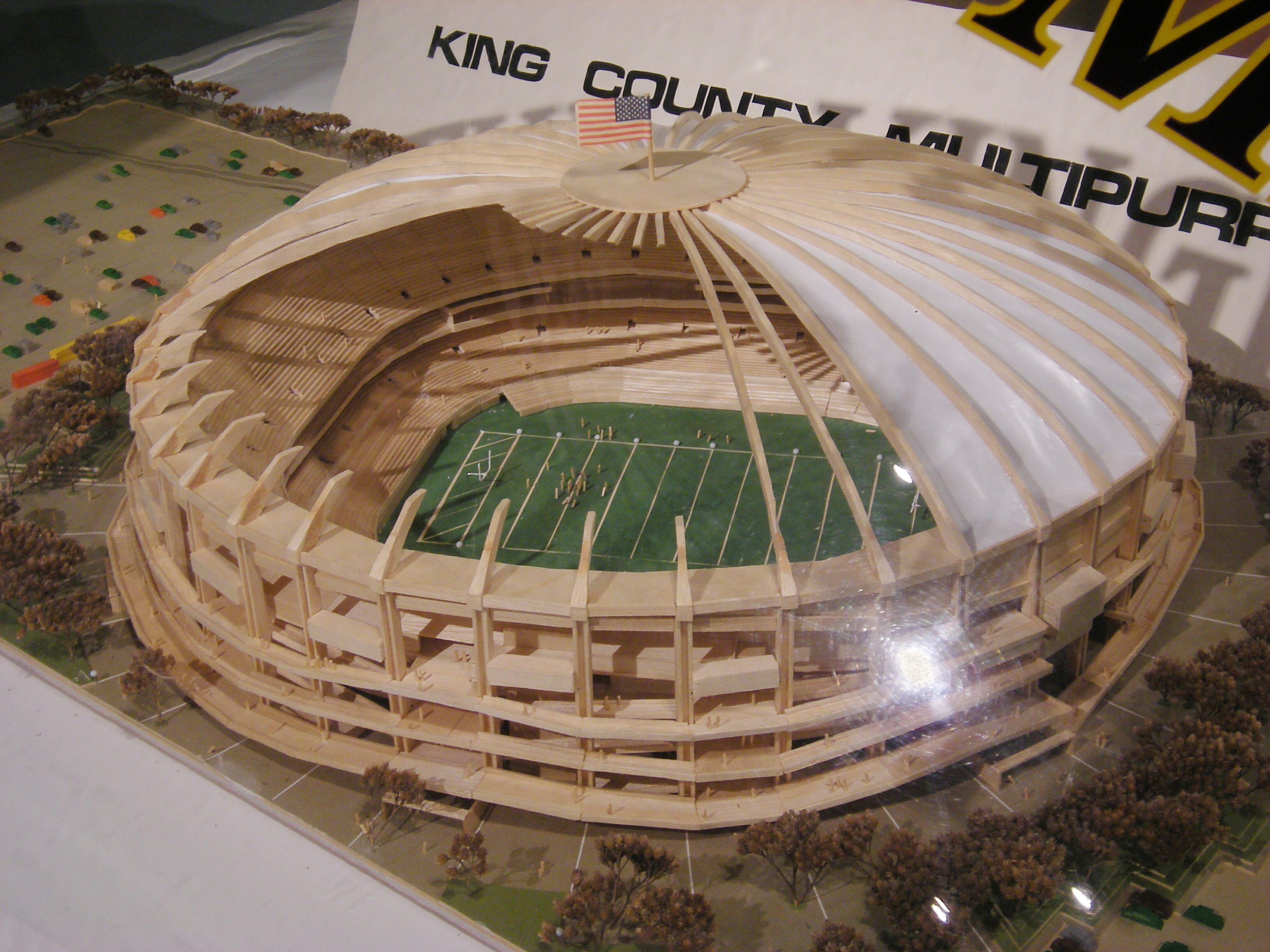 Model of the Kingdome, at Museum of History and Industry, Seattle, Washington.